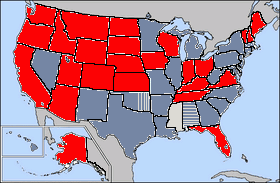 Presidential elections in the USA 1960, results by state